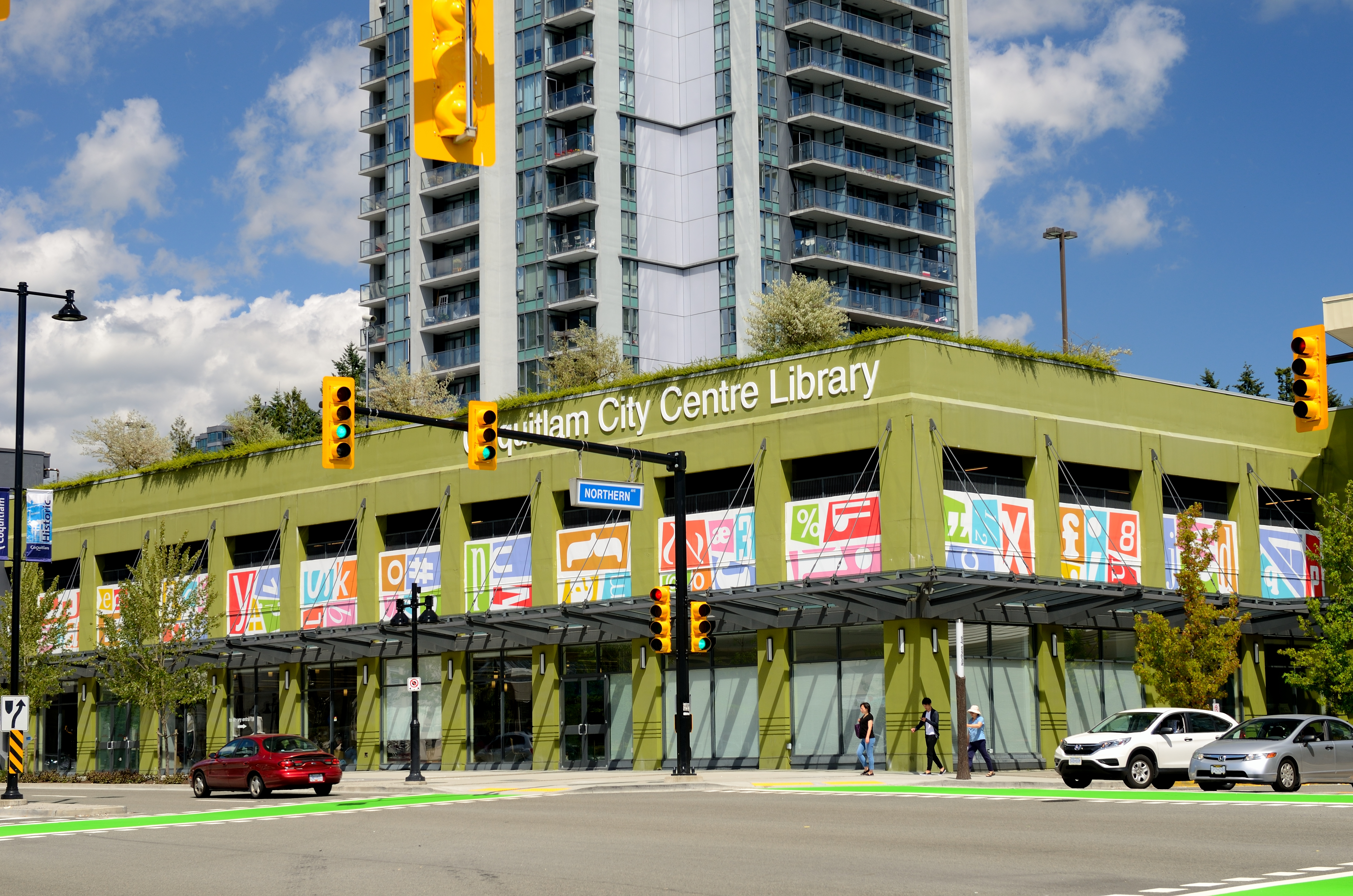 Main branch of the Coquitlam Public Library